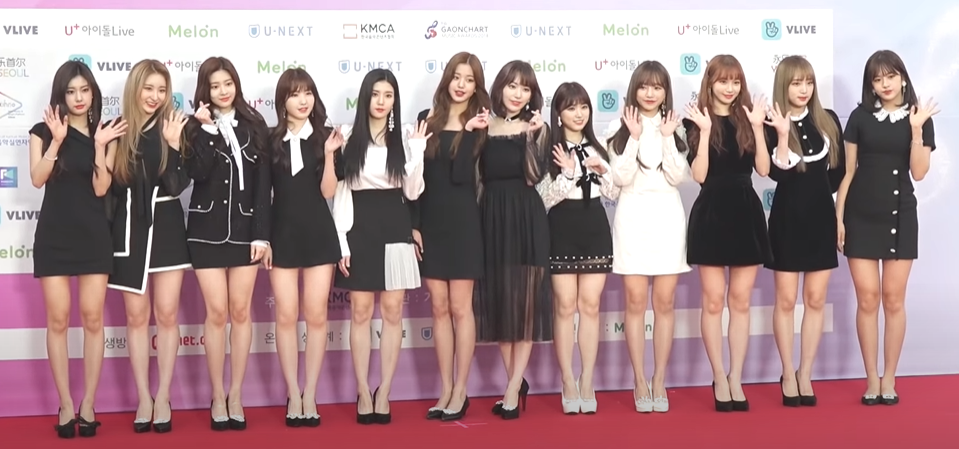 Iz*One at the red carpet ceremony of the 8th Gaon Chart Music Awards held at Jamsil Arena on January 23, 2019